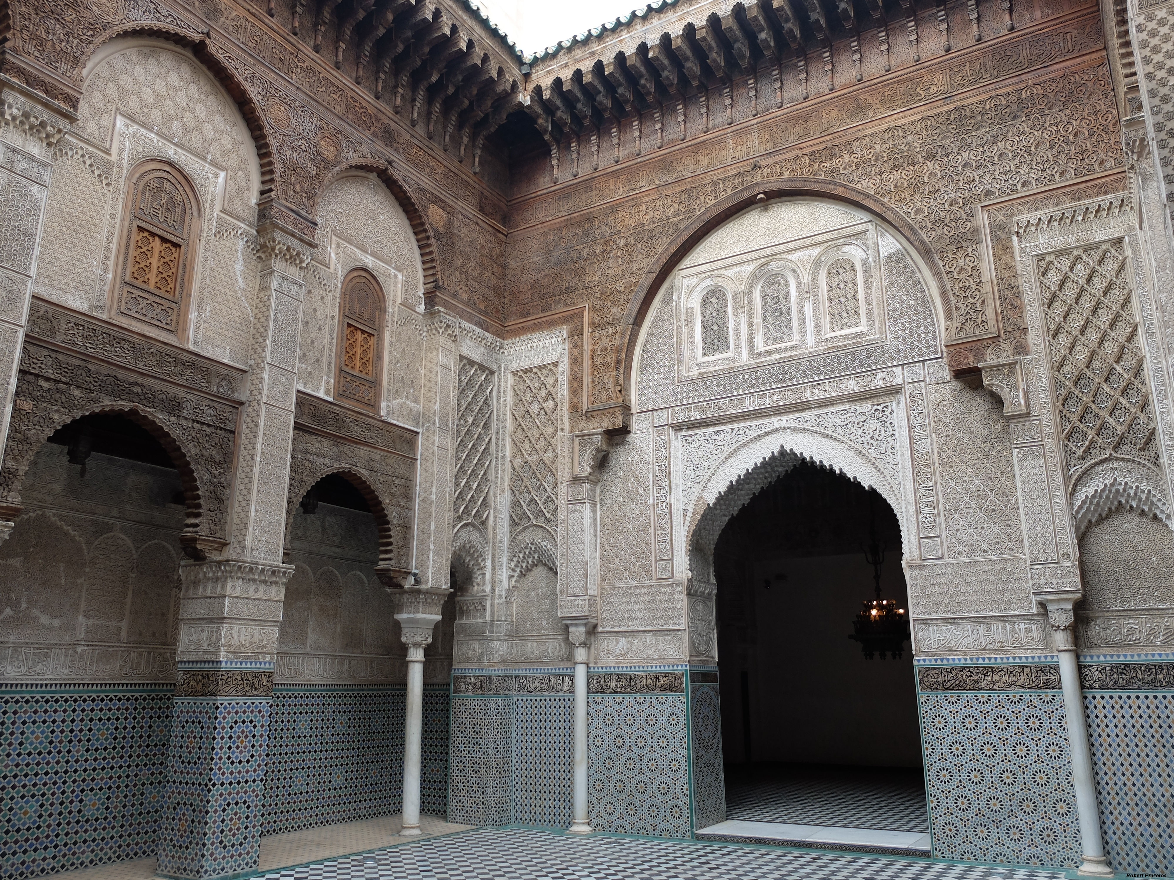 Al-'Attarin Madrasa